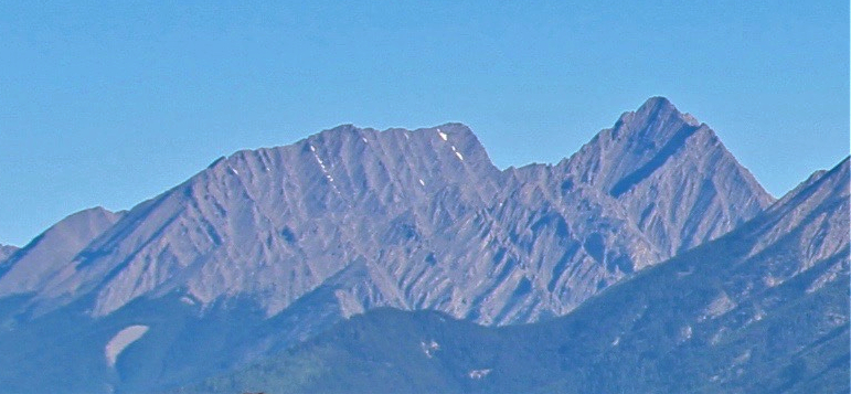 Mount Selkirk seen from Kootenay Valley Overlook in Kootenay National Park, Canada